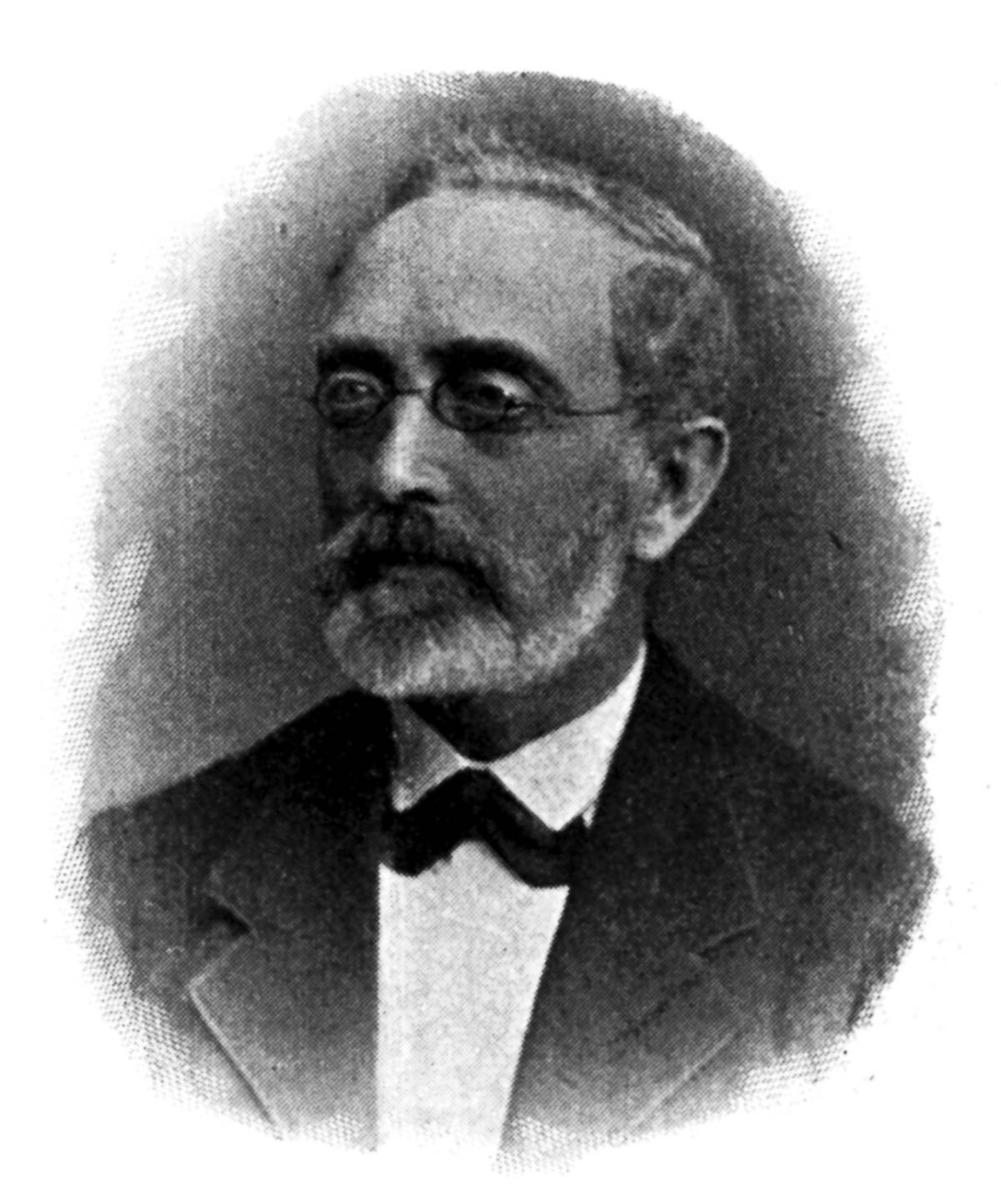 Hugo Ruehle (1824—1888), German physician